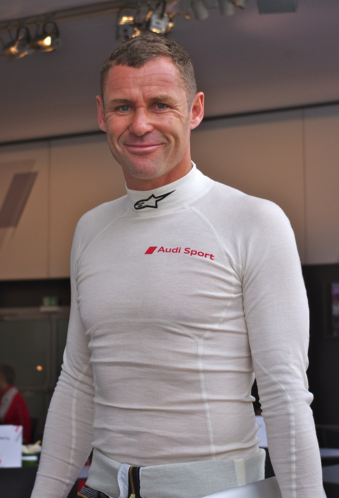 Danish race car driver Tom Kristensen at the 2011 6 Hours of Silverstone.